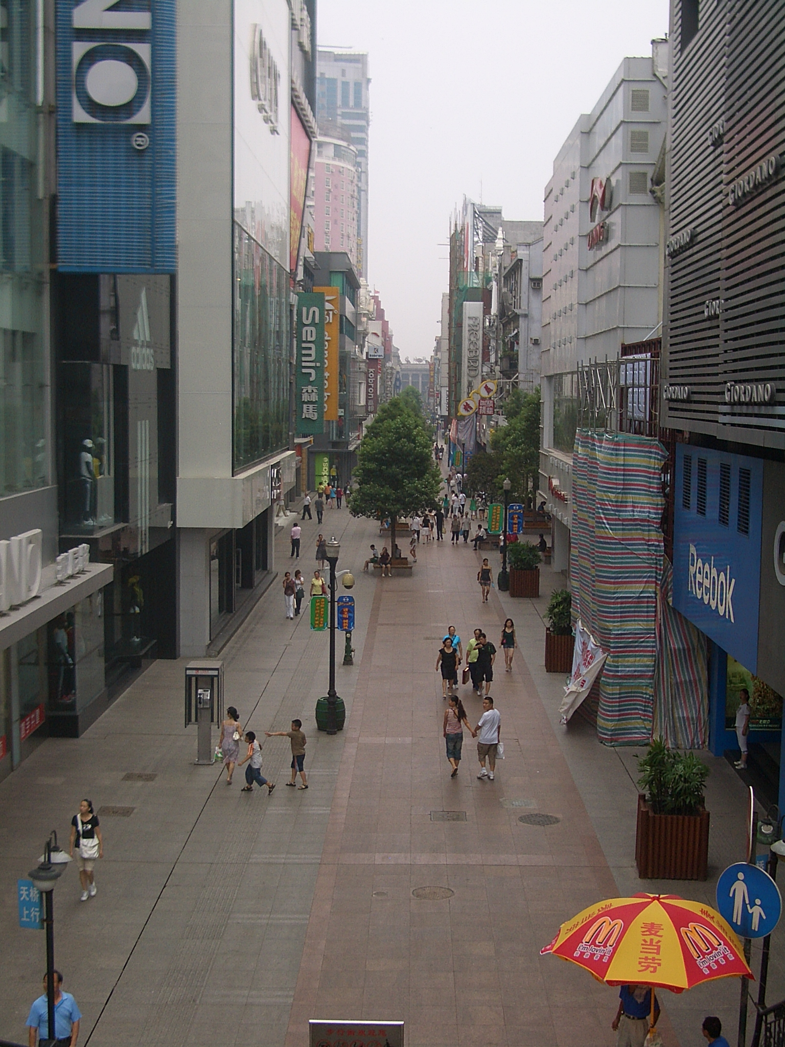 Jianghan Lu (or possibly one of its cross streets), a pedestrian shopping street in central Hankou (Wuhan)